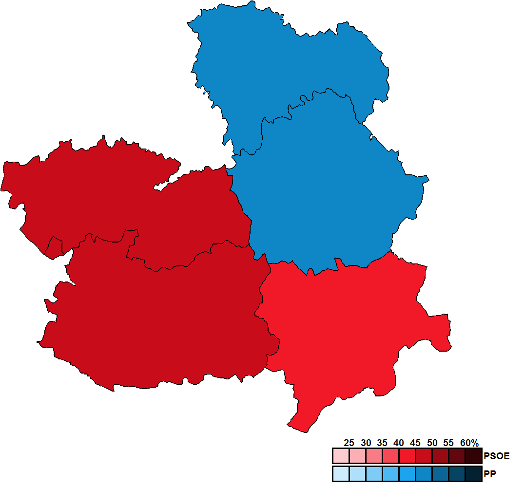 Provincial results for the 1995 Castilian-Manchegan regional election.